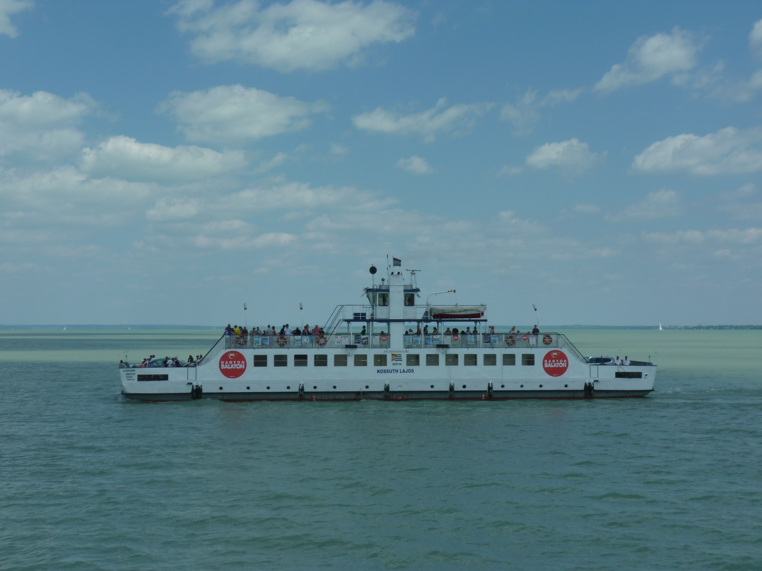 Ferry between Tihany and Szántód